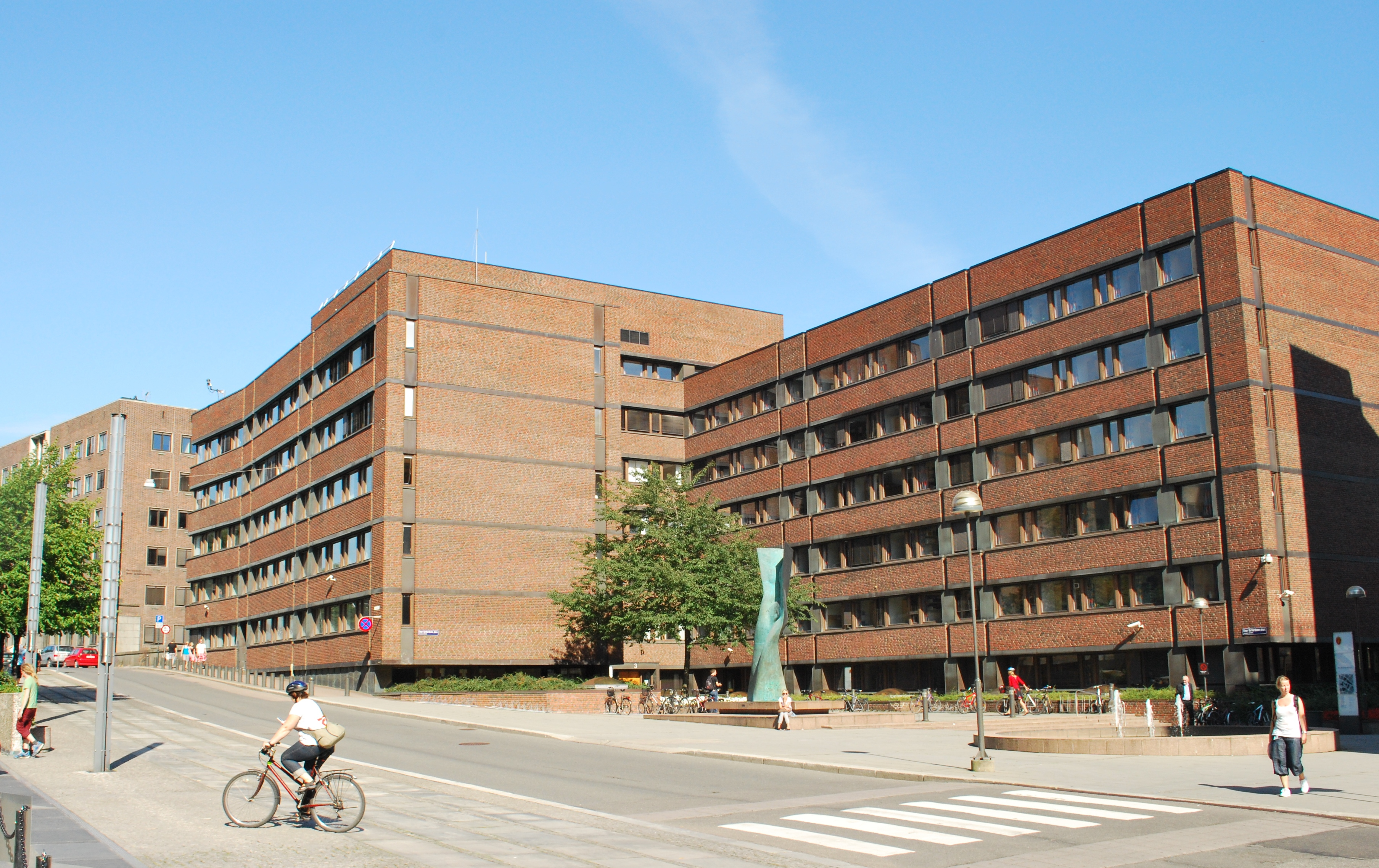 S-blokken, on of the government buildings of central Oslo (Regjeringskaartalet), Einar Gerhardsens plass 3